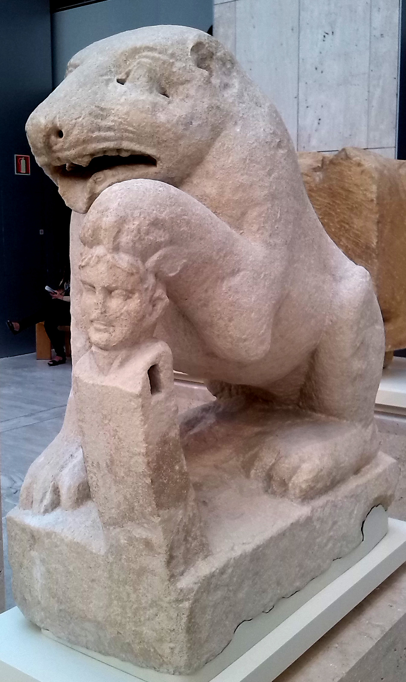 Bear leaned on a herma. Iberian artwork from Porcuna (Jaén, Andalusia, Spain).